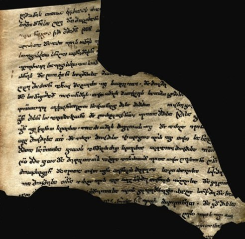 Will of King David IV of Georgia "the Builder" written in Nuskhuri script of the Georgian alphabet